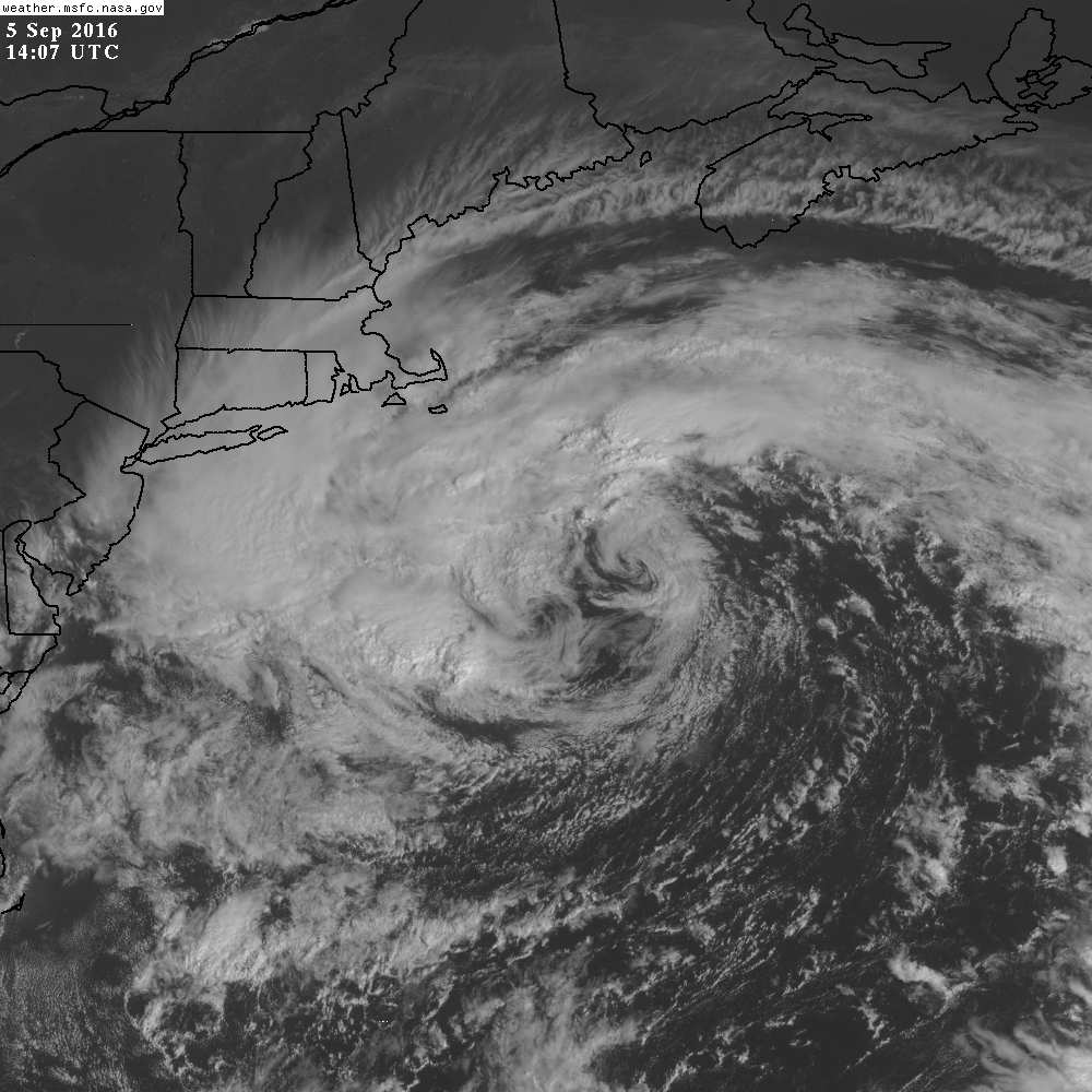 Post-Tropical Cyclone Hermine at 14:07 UTC on September 5, 2016, as it began turning to the northwest toward New England. The large system featured multiple circulation centers rotating around each other at this time.